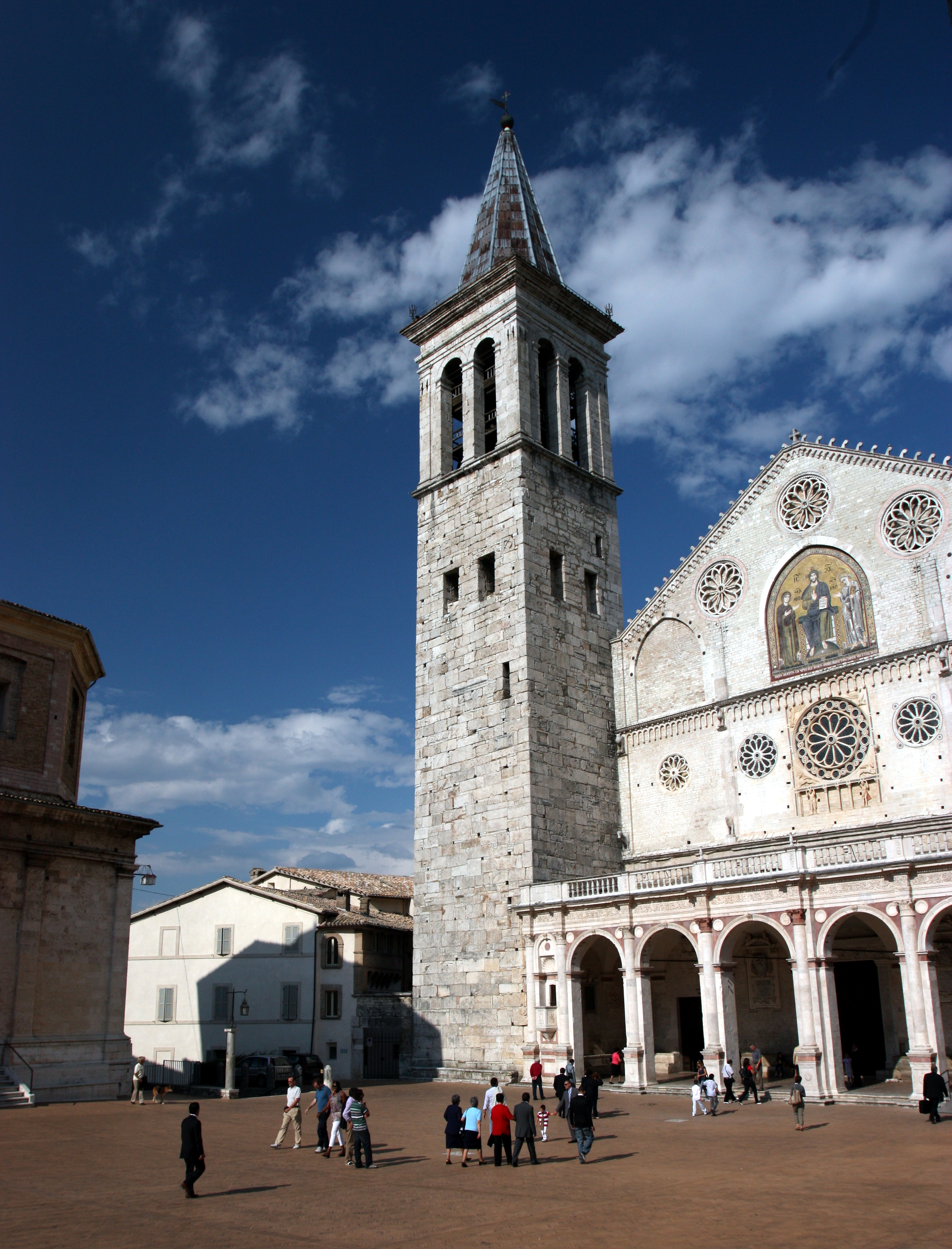 The cathedral of Santa Maria dell'Assunta in Spoleto, Umbria, Italy.